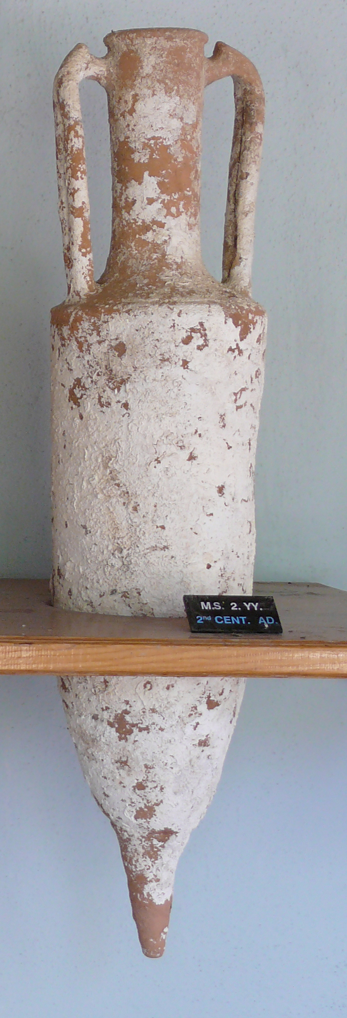 Amphoras from Kos, kept at Bodrum Castle (Turkey). The main characteristic of these amphoras is their double handles. Some of the amphorae from Kos are recognizable by the seal: a crab. Chief sources of the island's wealth were its wines, and in later days, silk manufacture. According to Pliny (xxxv. 46) these wines enjoyed considerable fame.